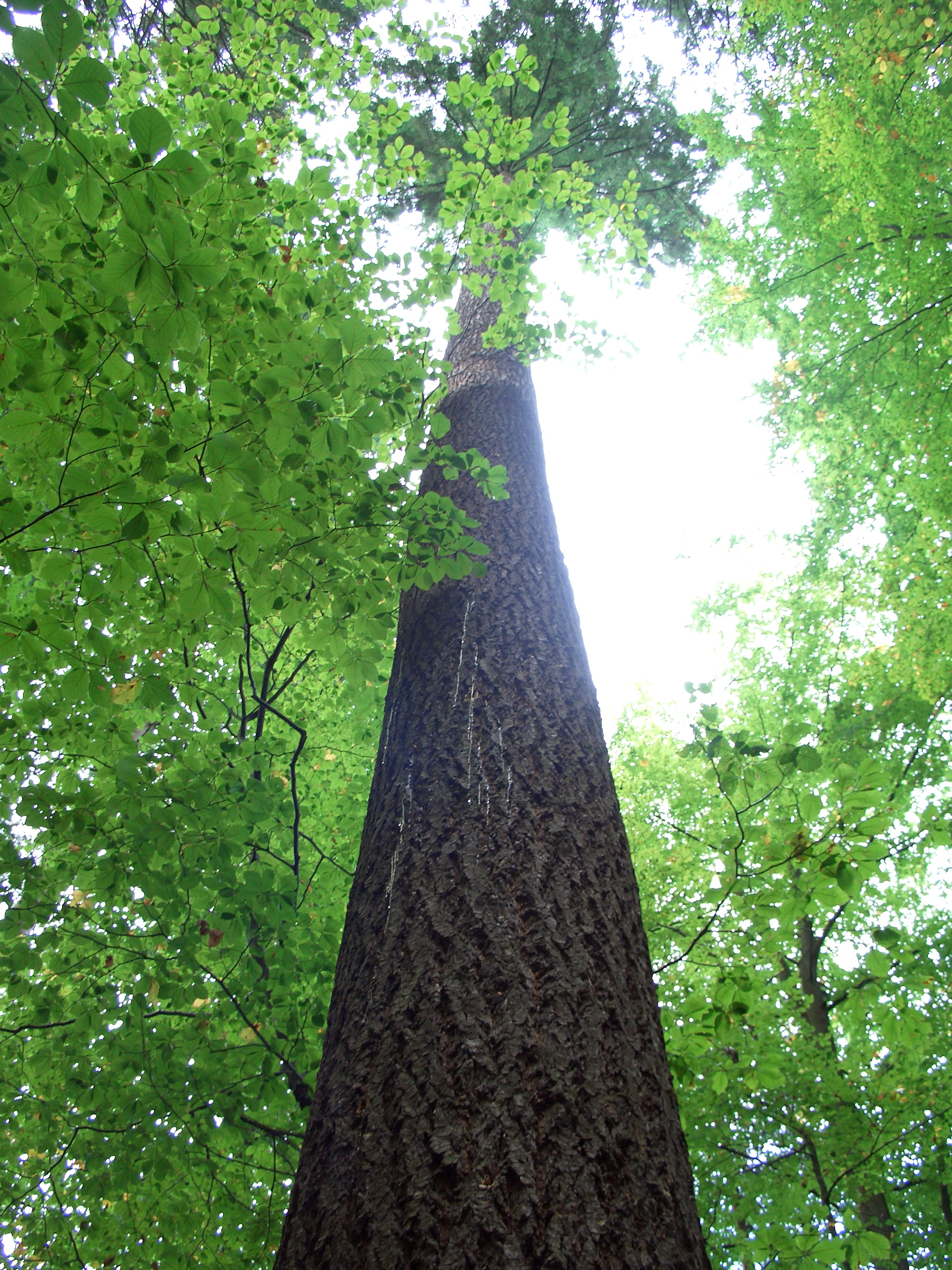 63,33 m high Pseudotsuga menziesii in Germany